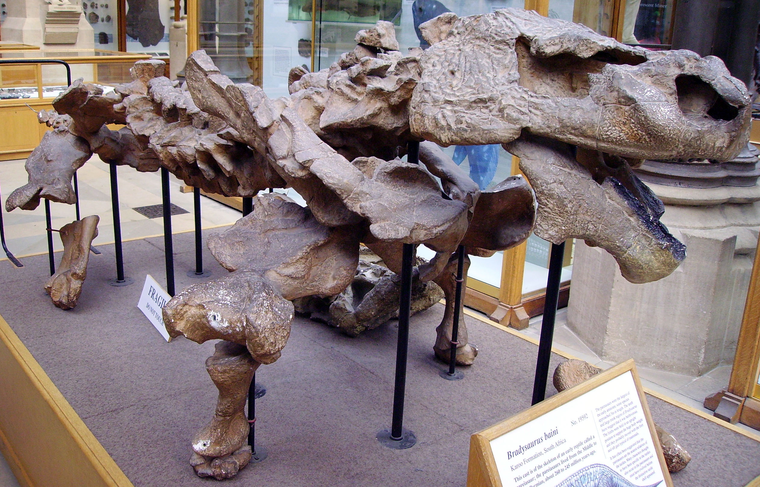 Bradysaurus baini, a large Pareiasaur, in Oxford University Museum.